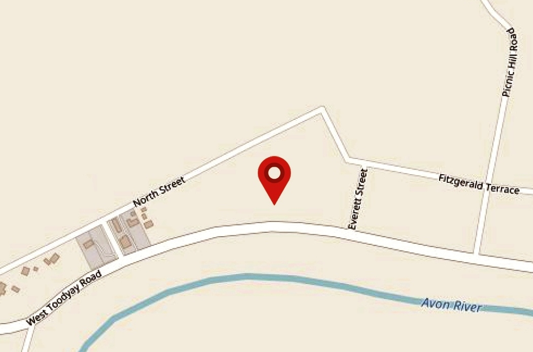 Location of the first Toodyay Convict Hiring Depot in 1851